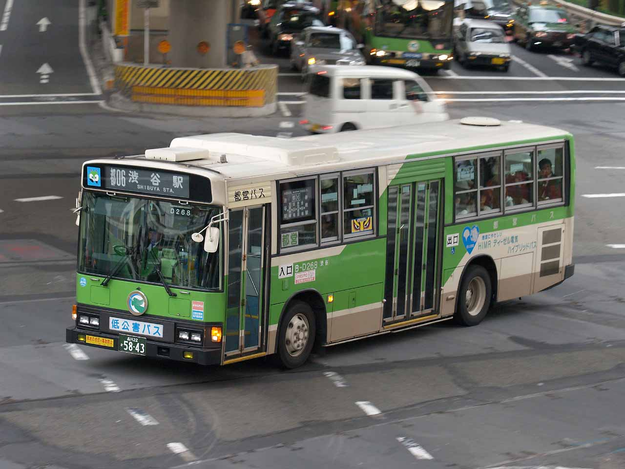 Fleet of Toei Bus "Green Echo" route (between Shinbashi and Shibuya, via Azabu). Model: Hino Blue Ribbon HIMR (KC-RU1JLCH) License plate: TKS22KA5843 （品川22か5843） Place: Neighbour of Shibuya station, Shibuya ward, Tokyo Japan